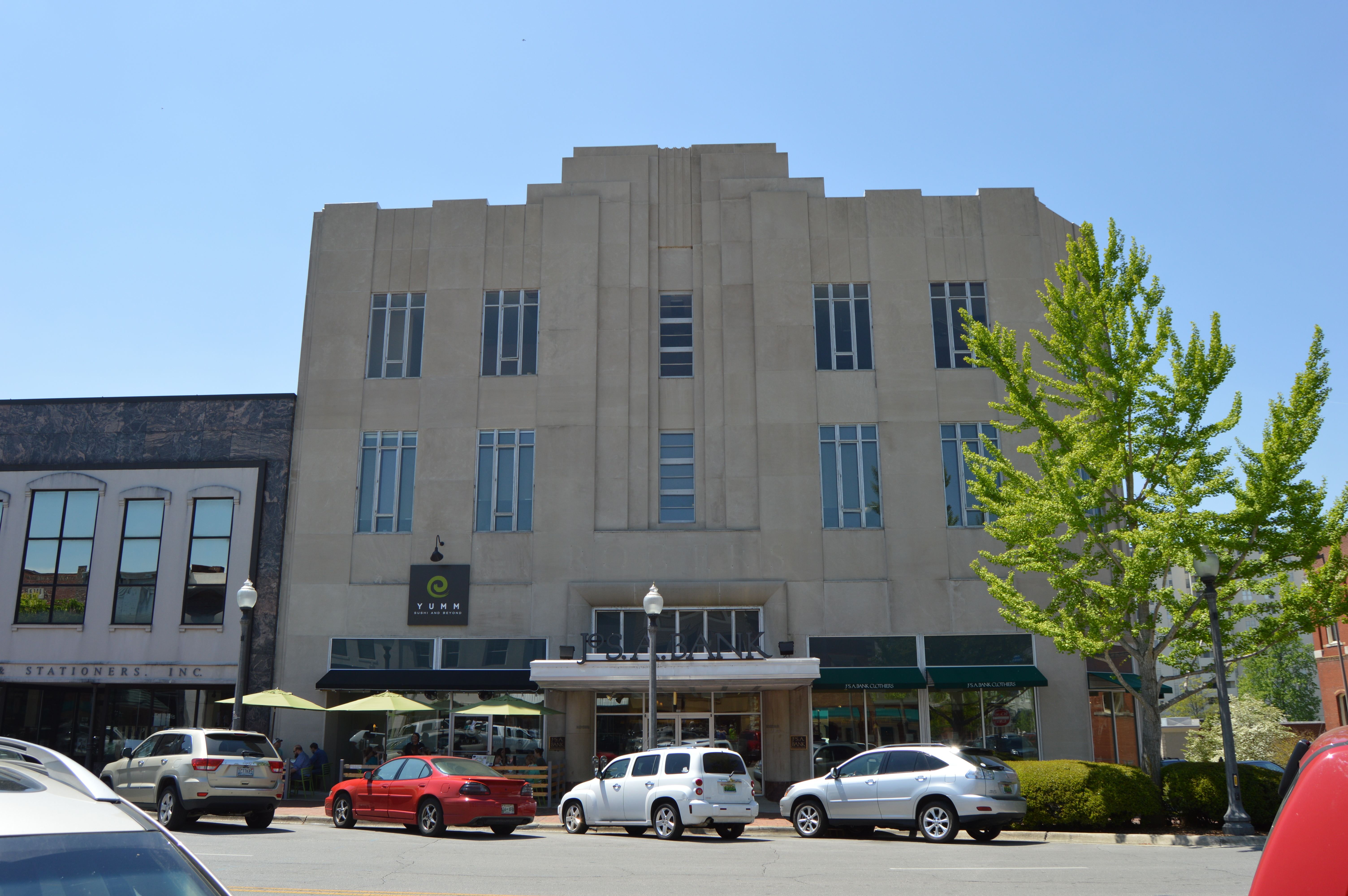 Front of the Rogers Department Store, located at 117 N. Court Street in Florence, Alabama, United States. Built in 1910 and extensively remodelled in 1948, it is listed on the National Register of Historic Places, and it is part of a Register-listed historic district, the Downtown Florence Historic District.